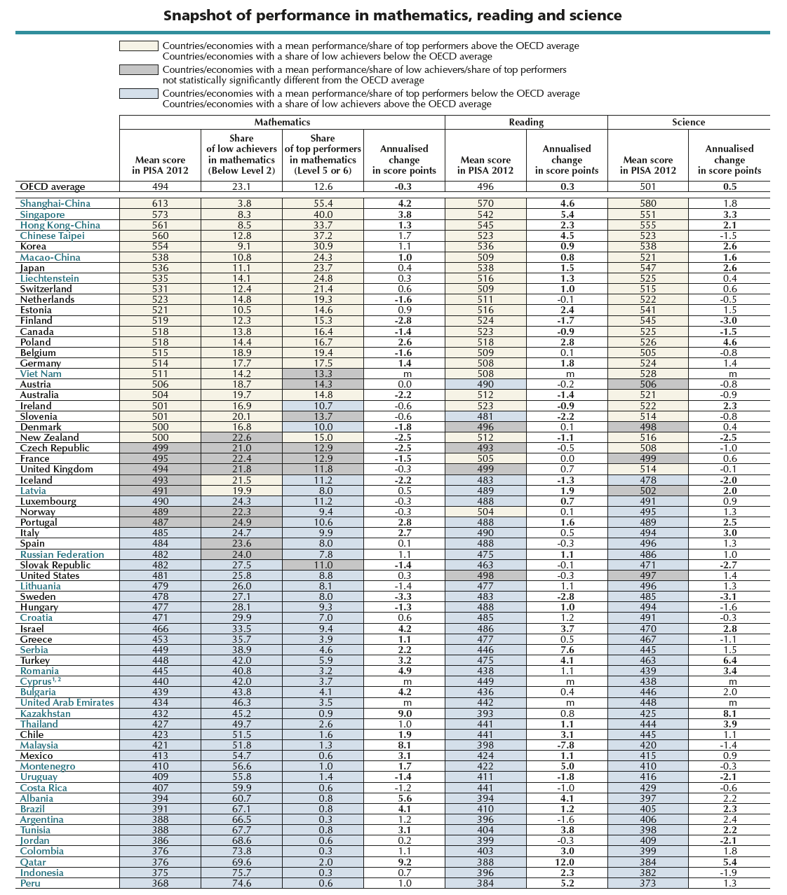 PISA 2012 Results in Focus, page 5. OECD.